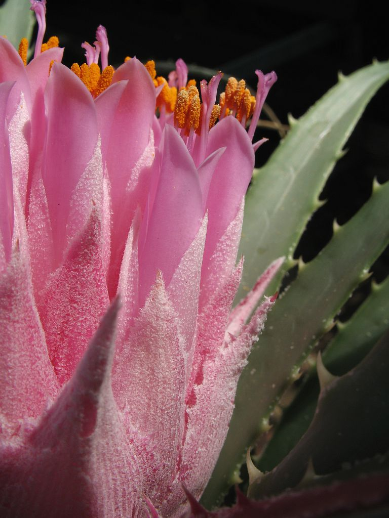 Ochagavia carnea in cultivation at the Botanical Garden of Heidelberg, Germany.